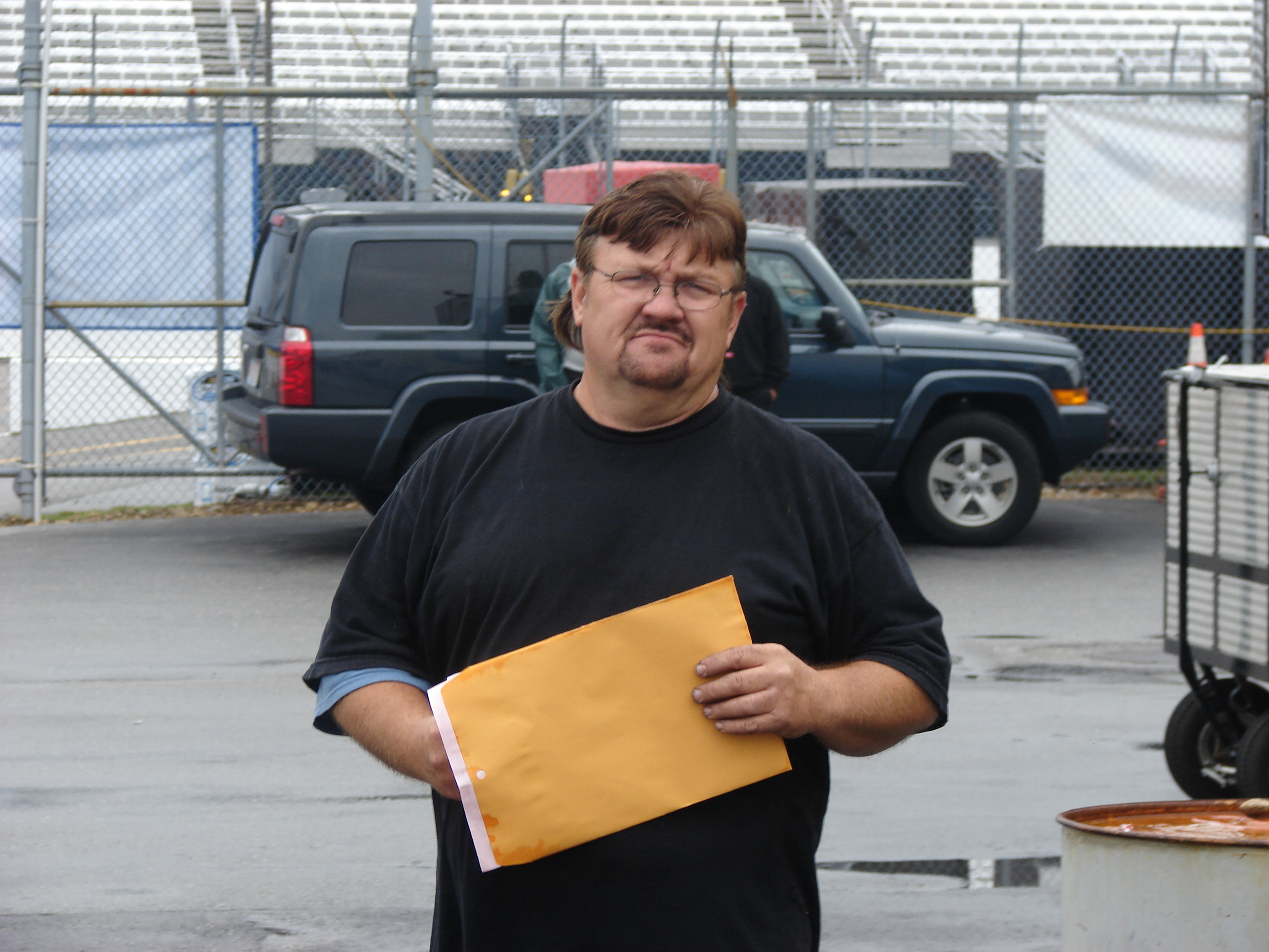 NASCAR driver Mike Harmon in the Nationwide Series garage at New Hampshire International Speedway